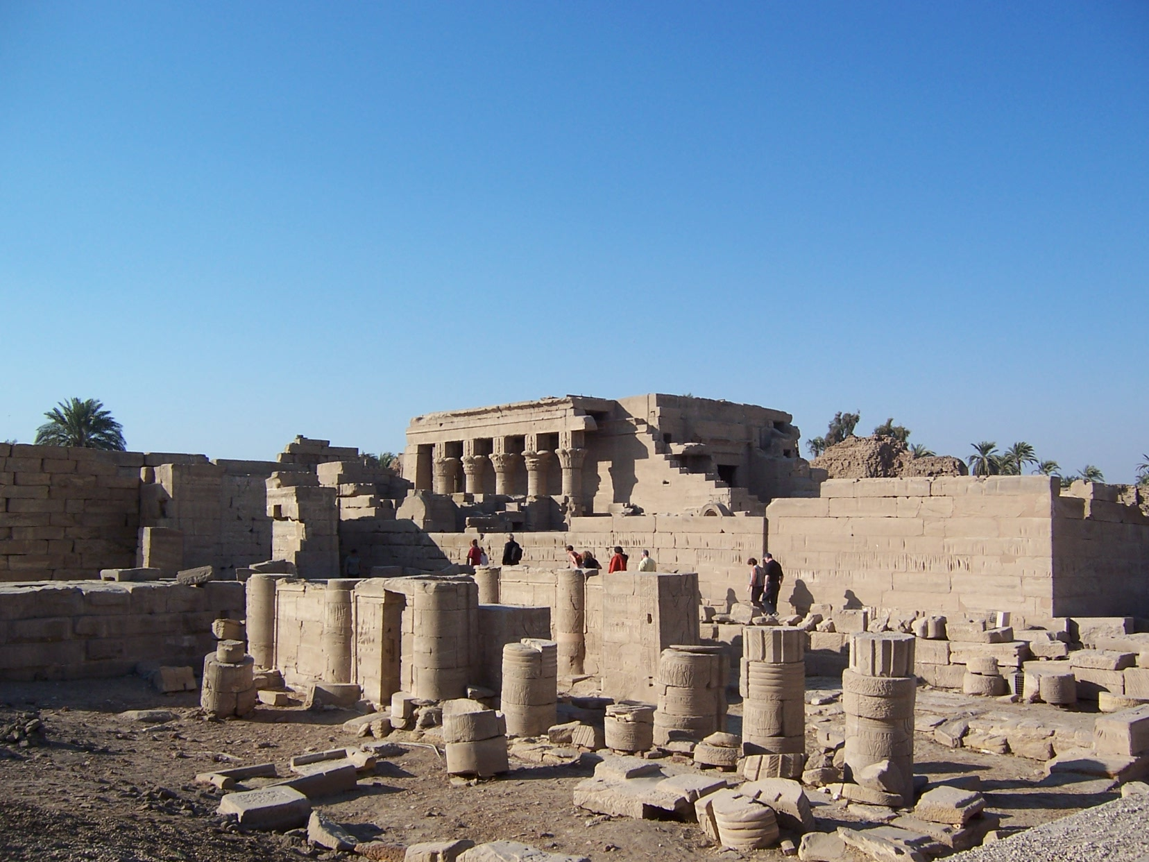 Dendera Hathor Temple Complex location: near Qina, Egypt